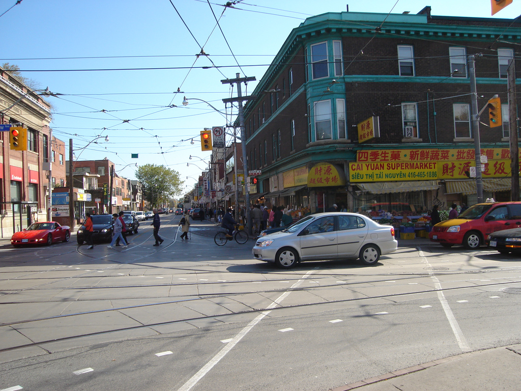 East Chinatown, Toronto, Canada